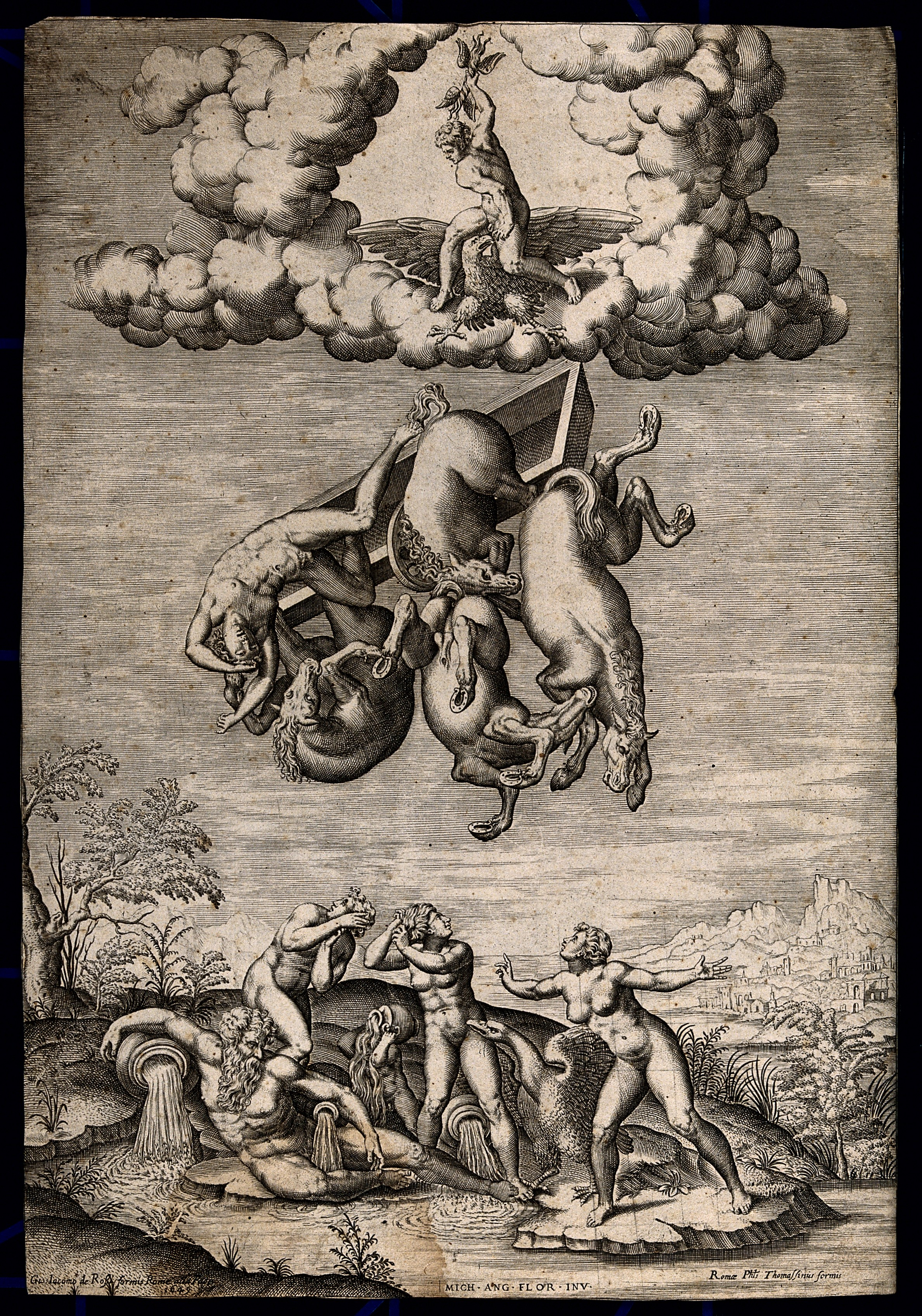 The fall of Phaethon. Engraving after Michelangelo. Iconographic Collections